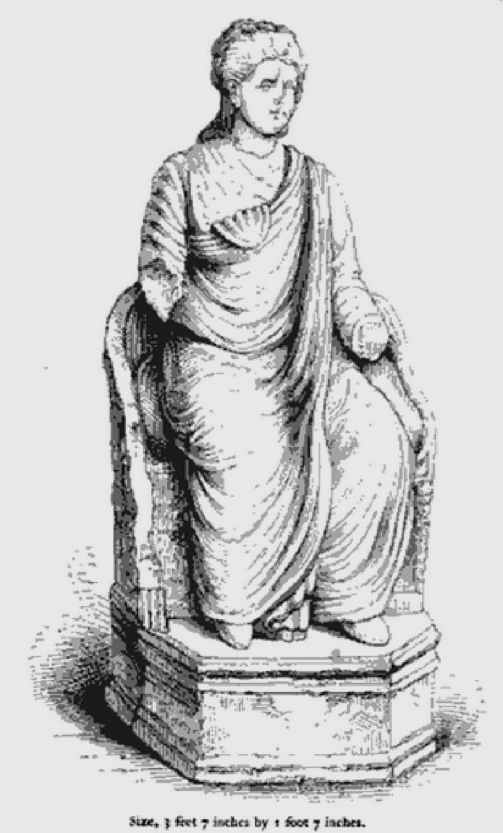 Statue of the goddess Fortuna, found 1852 in Birdoswald (Banna), Hadrians Wall.